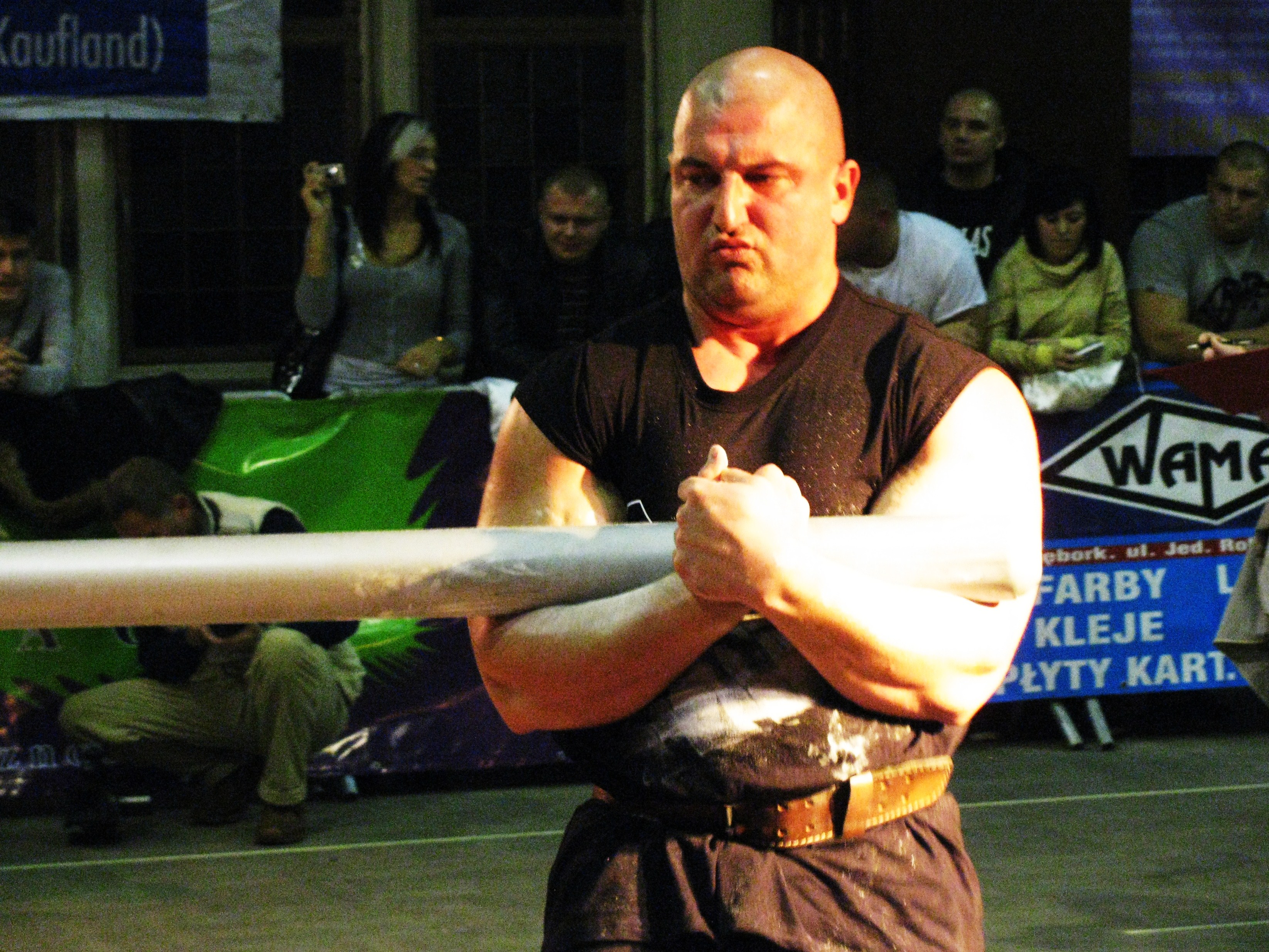 Slawomir Orzel - a strength athlete from Poland at Conan's Circle.